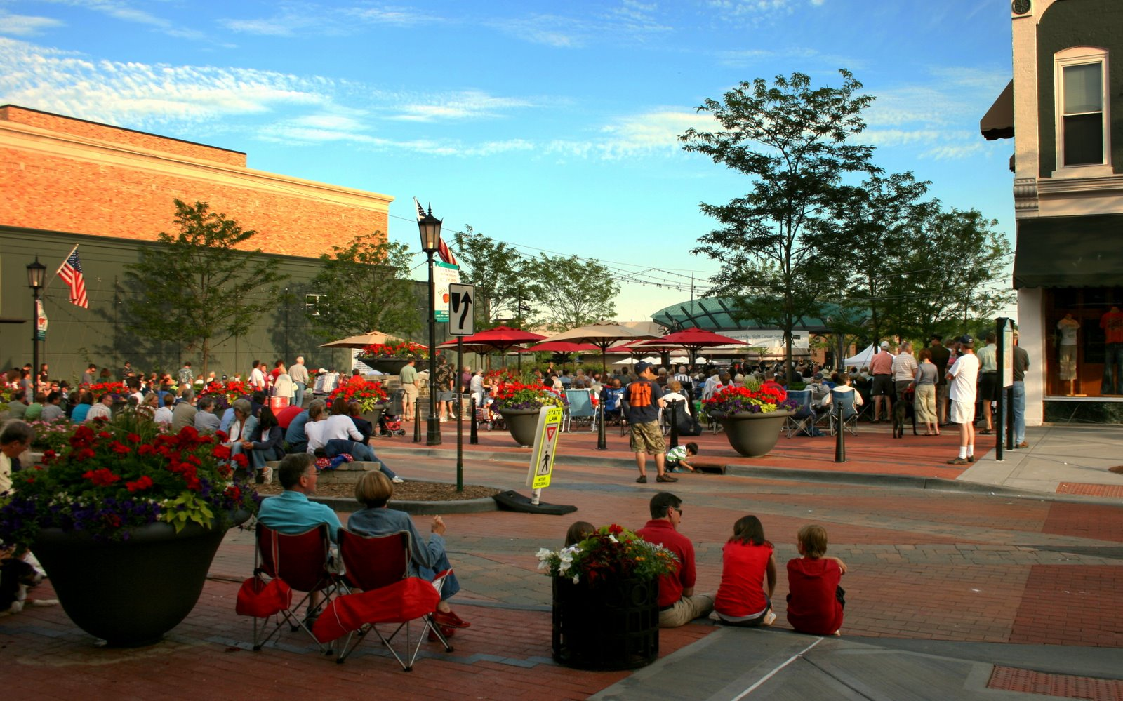 Summer concerts in Northville on Fridays, located where the historic bandshell was brutally demolished to make way for a garbage, post-modern stage to cater to the ever-increasing flow of tourism and exploitation of the town.